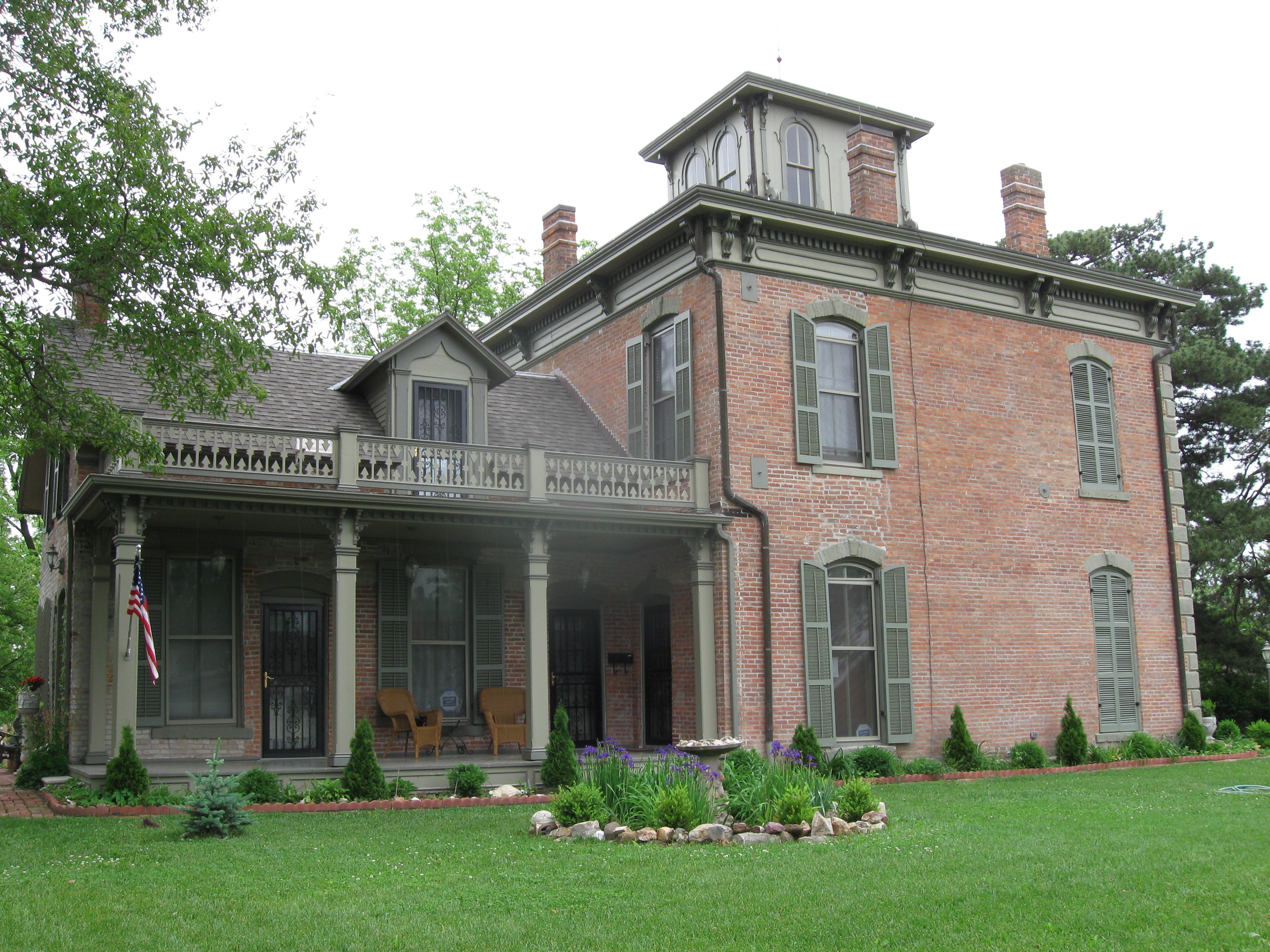 Side view of the Captain Thomas C. Harris House, also known as the Parrish House. Located in Kirksville, Missouri, this Italinate-style home was constructed in 1875 for Captain Thomas C. Harris, a Union officer in the Civil War. The home is listed on the National Register of Historic Places. Photo taken 1 October 2009. Photo used courtesy of Catfilmnoir a.k.a. Carol Baier via Flickr.